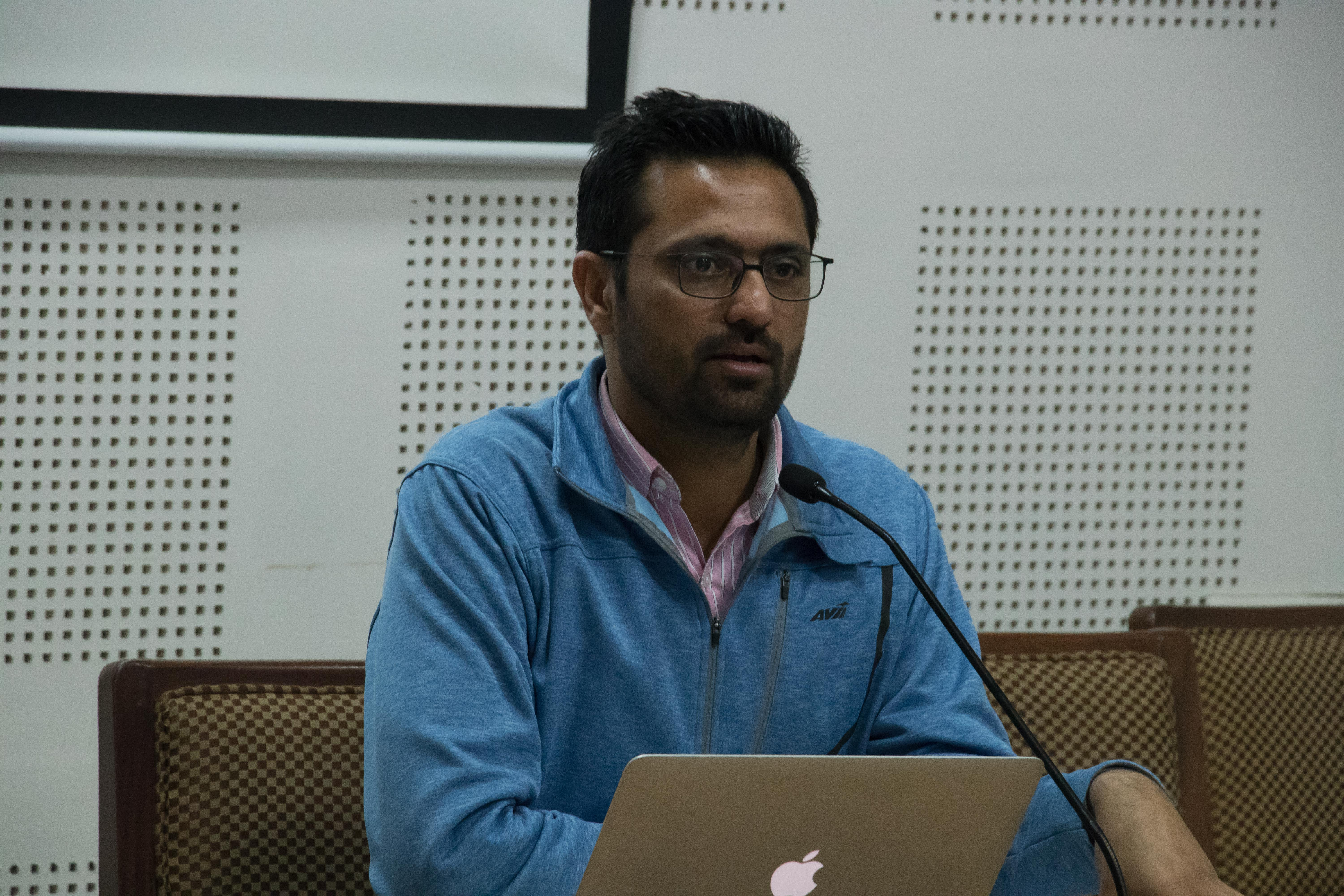 Rajwinder Singh